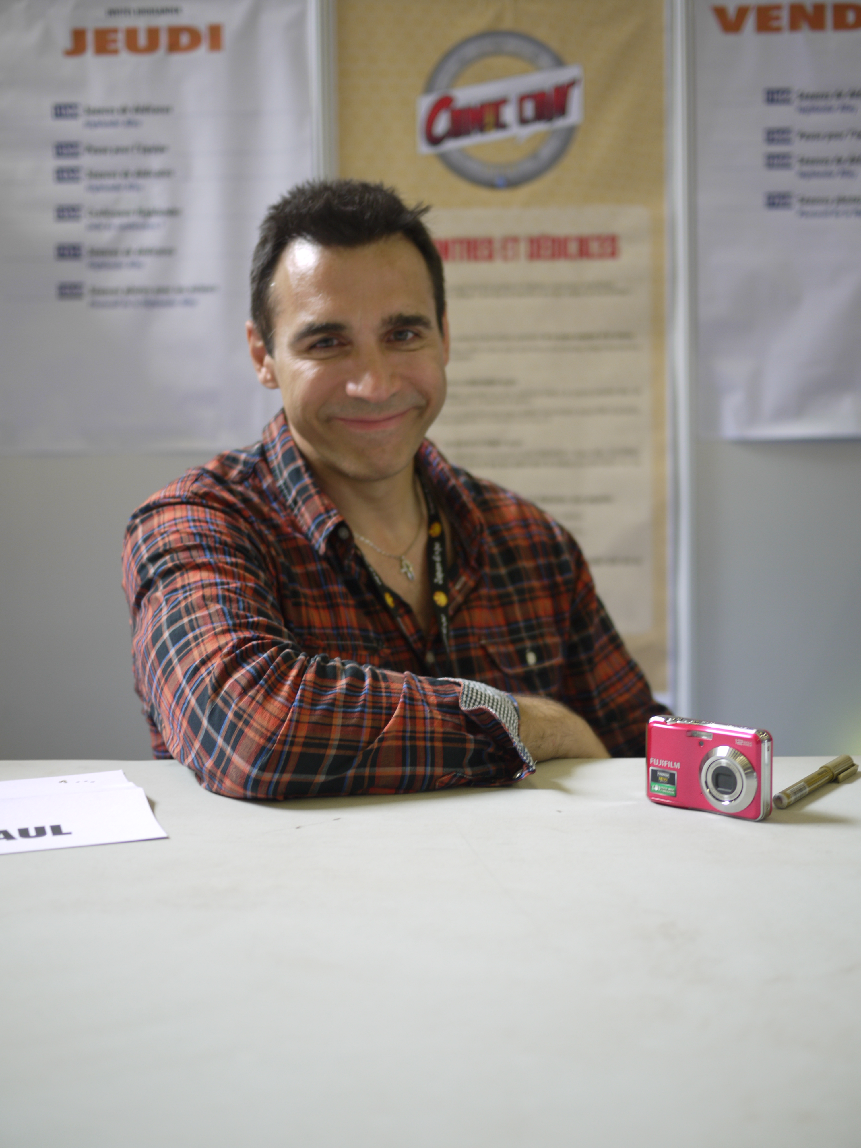 Japan Expo Festival, 11th impact